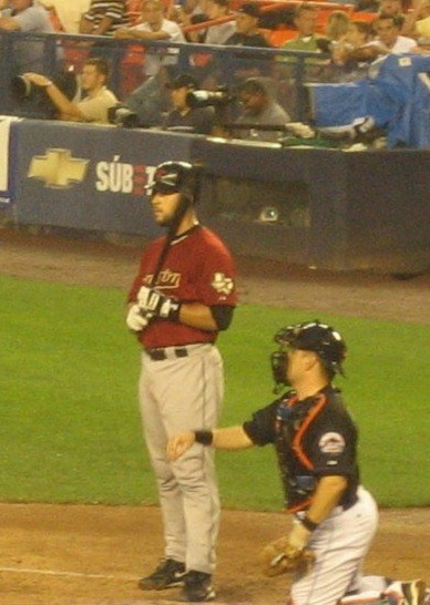 I attended a Mets-Astros game at Shea Stadium on July 21, 2006 and took this picture of Eric Munson at bat. 03:41, 20 June 2007 . . Zookman12 . . 388×546 (68 KB)